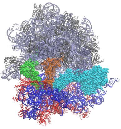 An image made using VMD of the 70S ribosome, two tRNA molecules (orange and green), and elongation factor G (cyan) in the POST state, at the end of tRNA translocation. PDB ID: 4W29 Zhou, J., Lancaster, L., Donohue, J.P., Noller, H.F. (2014) How the ribosome hands the A-site tRNA to the P site during EF-G-catalyzed translocation. Science 345: 1188-1191 VMD: Humphrey, W., Dalke, A. and Schulten, K., "VMD - Visual Molecular Dynamics", J. Molec. Graphics, 1996, vol. 14, pp. 33-38.